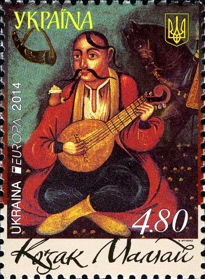 Stamp of Ukraine, 2014